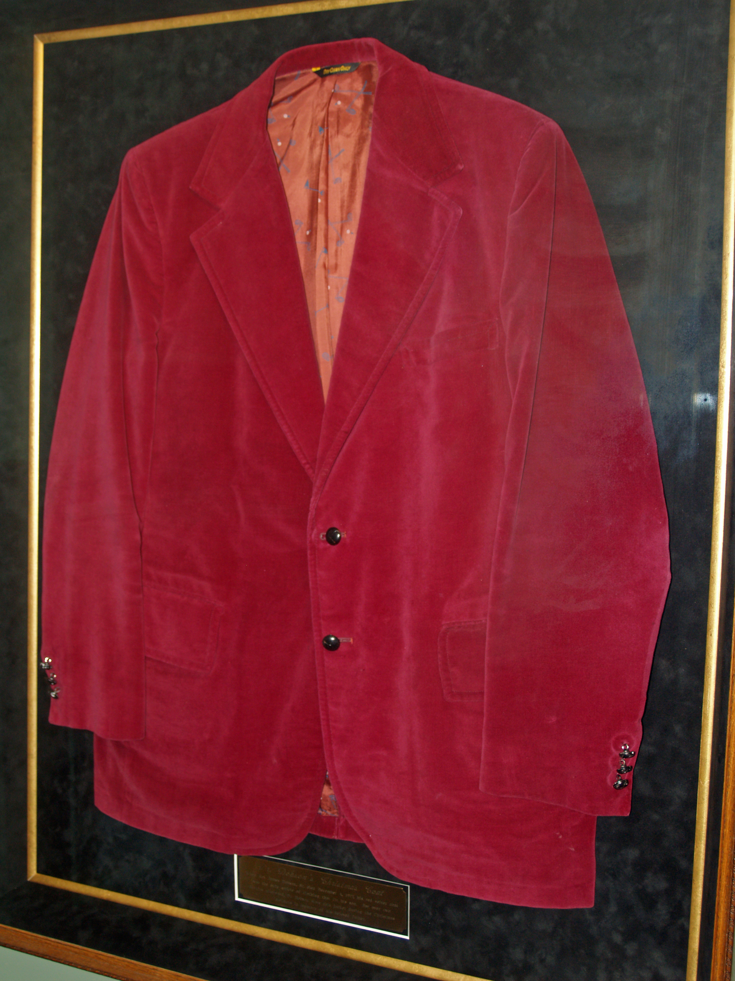 Focus on the Family's James Dobson Christmas Jacket displayed in Colorado Springs, Colorado, USA.